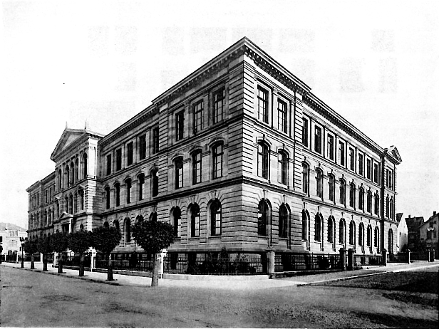 Robert-Mayer-Gymnasium_Heilbronn_(Königliche_Realanstalt_Heilbronn),_erbaut_1887_bis_1889,_Stadtbaumeister_Gustav_Wenzel_(1839–1923),__um_1890,_Widmann,_Gustav.jpg